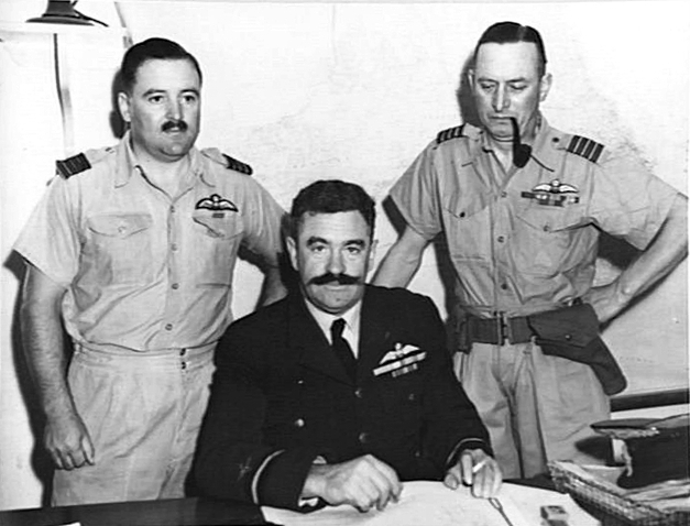 AWM caption: "1940-09-04. Left to right : Group Captain W. Garing, D.F.C. Air Commodore F.W.F. Lukis, O.B.E. Group Captain A.H. Cobby, D.S.O., D.F.C. and two bars Lukis is retiring from A.O.C., N.E.A., Cobby is succeeding him. Cobby is famous for having shot down 33 enemy planes and 13 balloons in the last war. Townsville. (Negative by Anderson)."N.B. Given date is incorrect according to Australia in the War of 1939–1945: Royal Australian Air Force 1939–1942, p.588 which states that Lukis handed over to Cobby on 25 August 1942.